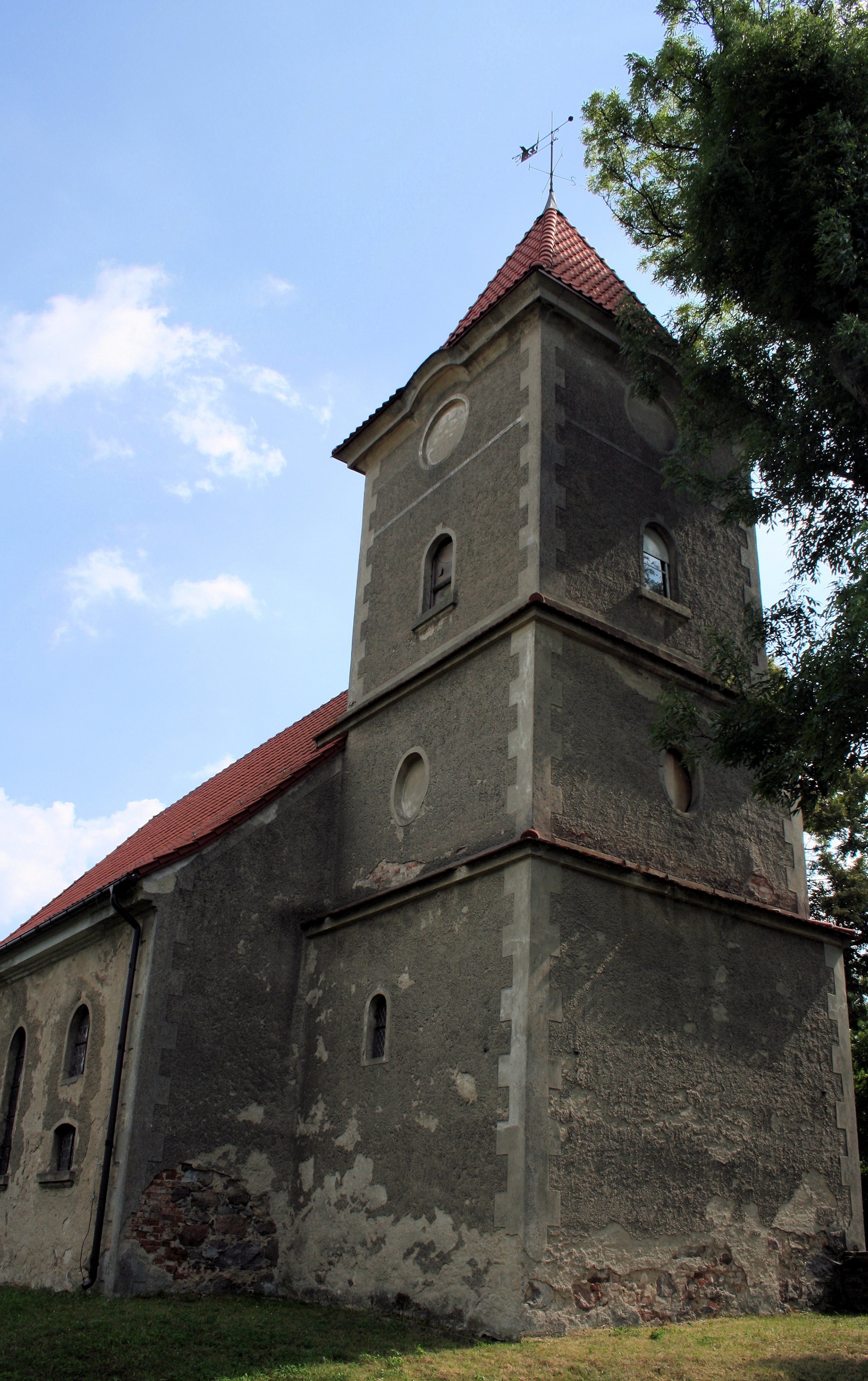 St. Roch's Church in Roscin, Mysliborz county